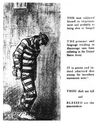 Blessed are the Peacemakers by George Bellows. Anti-war cartoon depicting Jesus with a halo in prison stripes alongside a list of his seditious crimes. First published in The Masses in 1917.